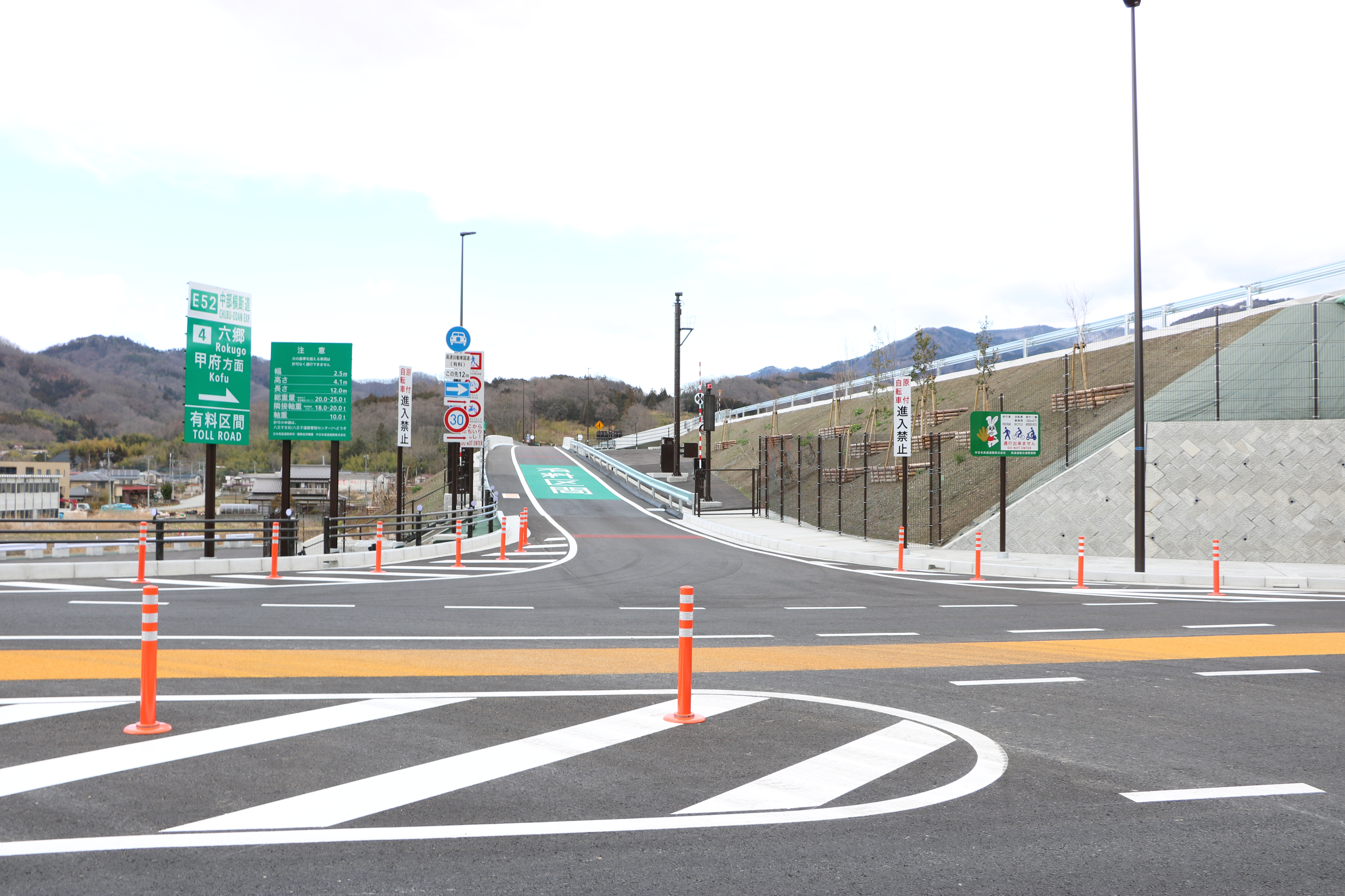 Chubu Odan Expressway Rokugo Interchange. Entrance to the Futaba side.